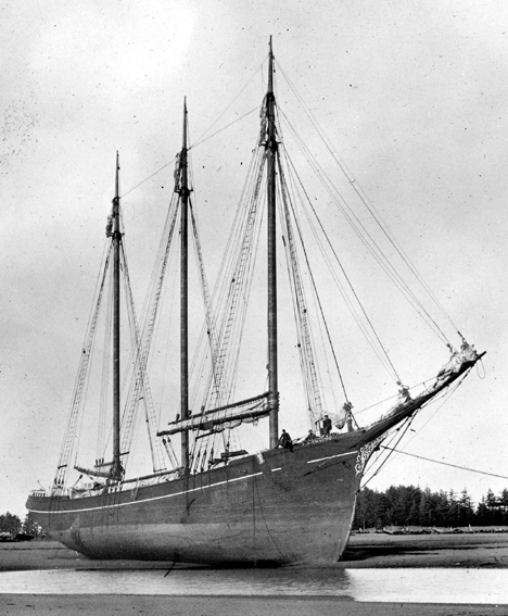 The C.A. Thayer, at Gray's Harbor, Oregon, 1903